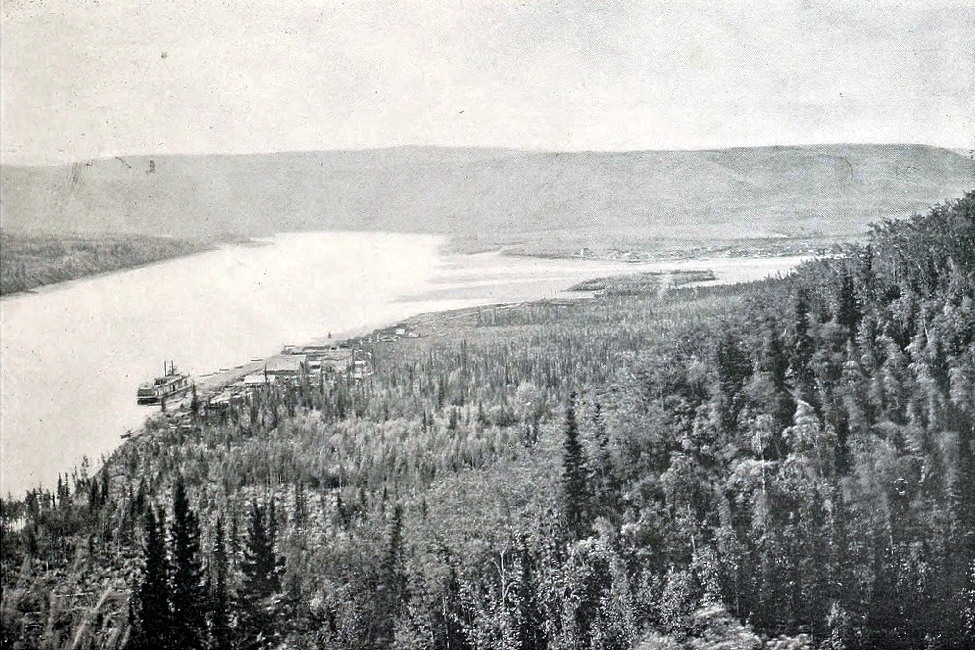 Junction of the Forty Mile and Yukon Rivers in the Klondike, 1897, showing sternwheeler alongside riverbank.